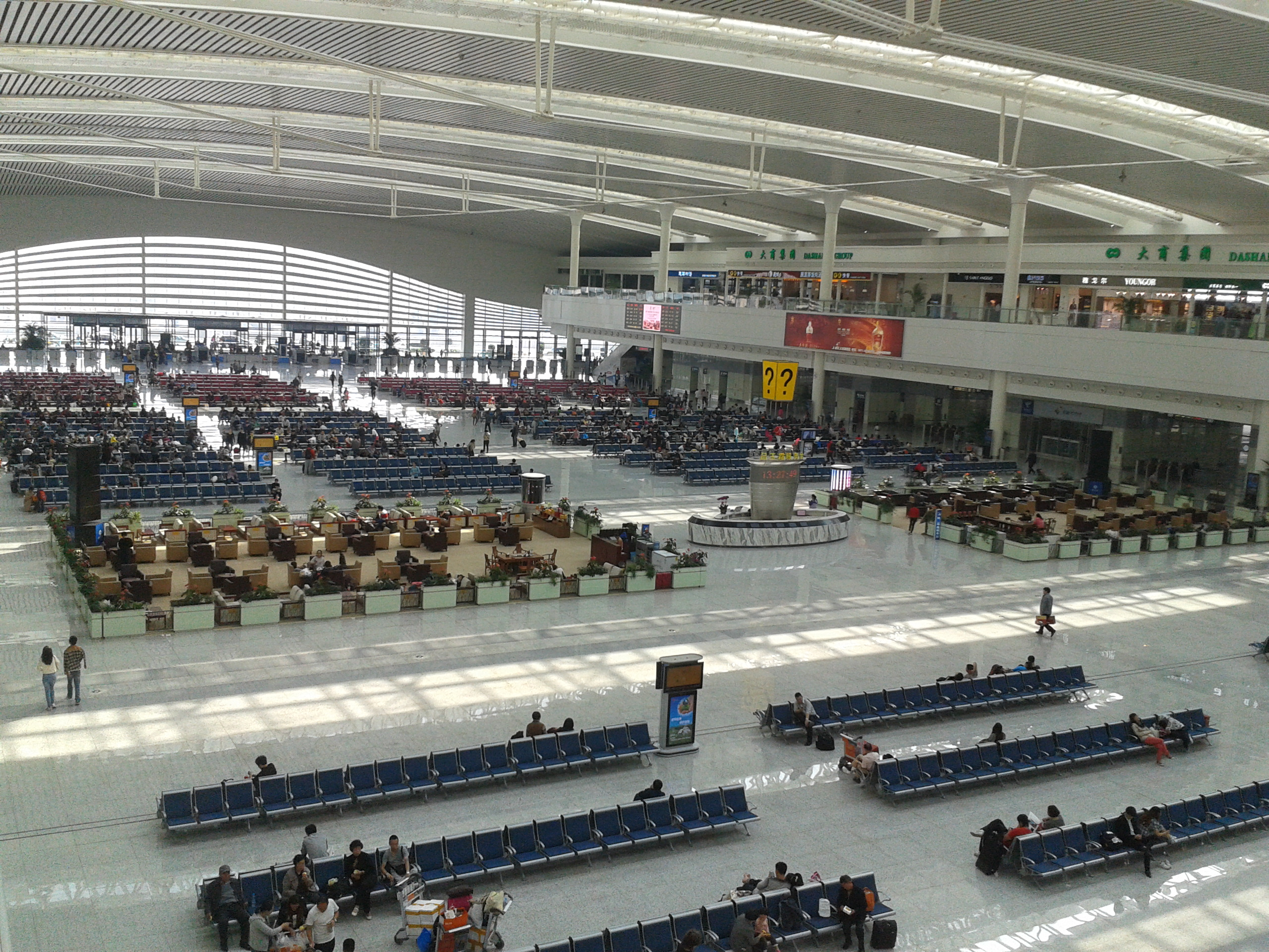 Internal view of Dalian North Railway Station. This is the main waiting (departure) hall. Dalian, Liaoning Province, China.